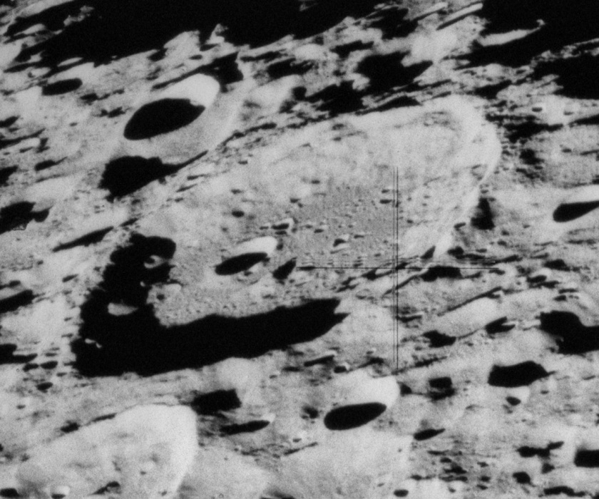 Oblique view of Millikan crater, on the far side of the moon